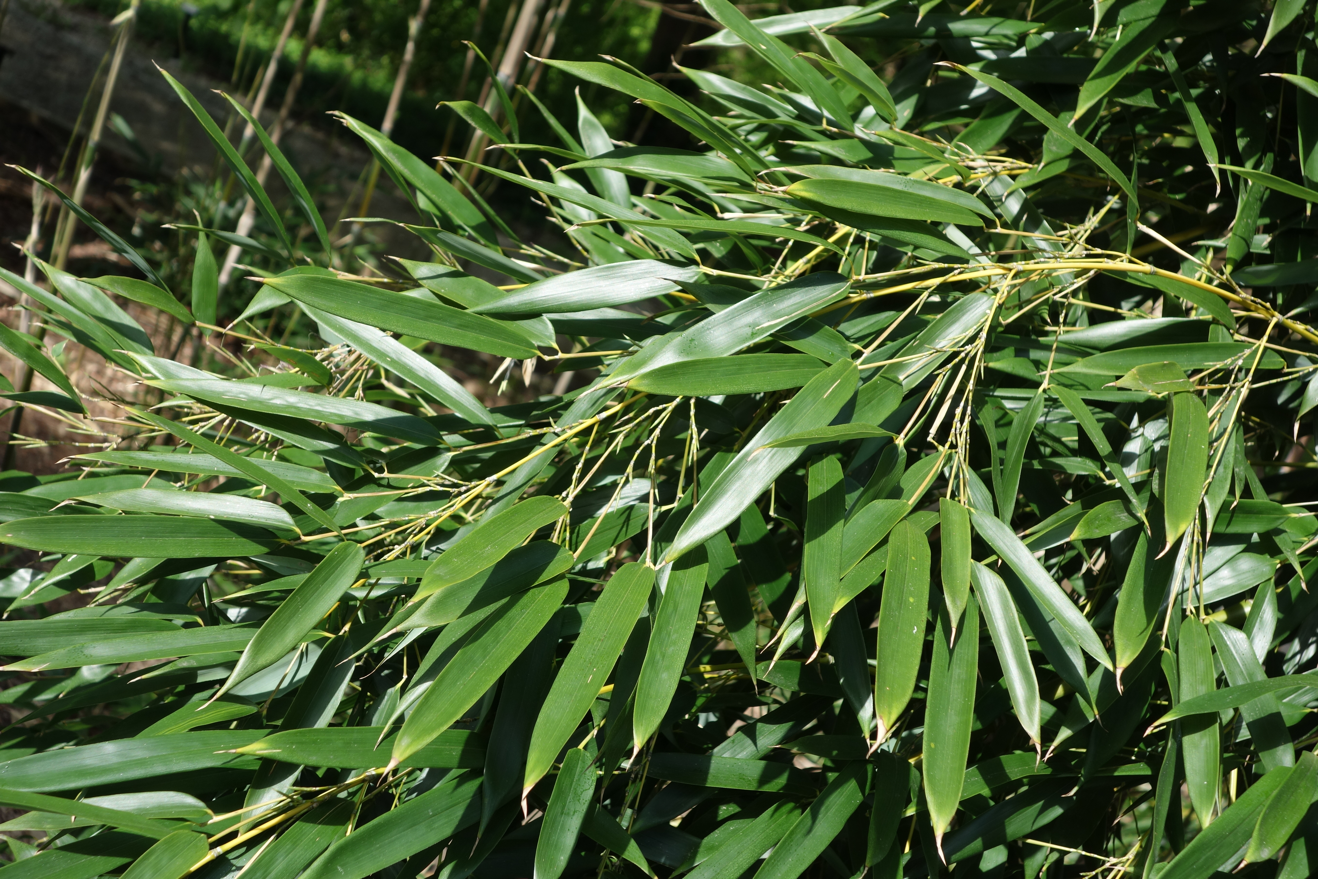 Botanical specimen in the Stanley M. Rowe Arboretum, Indian Hill, Ohio, USA.